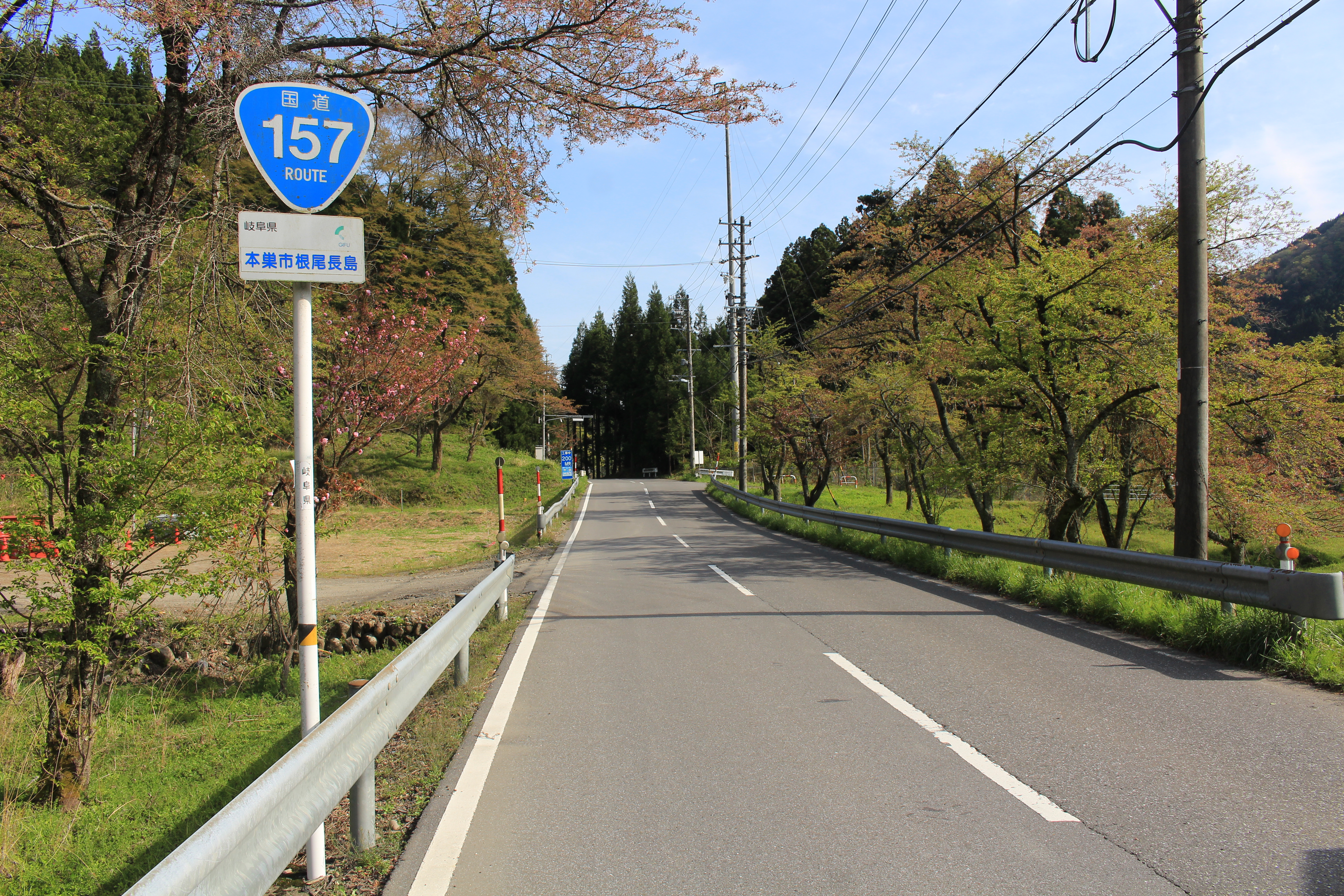 Route 157 in Neonagashima, Motosu, Gifu prefecture, Japan.